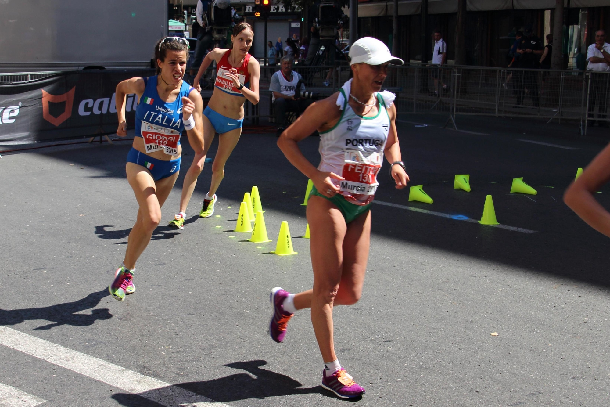 Susana Feitor (130), Eleonora Anna Giorgi (119) y Svetlana Vasilyeva (139) in the European Cup Race Walking 2015 (Murcia, Spain).